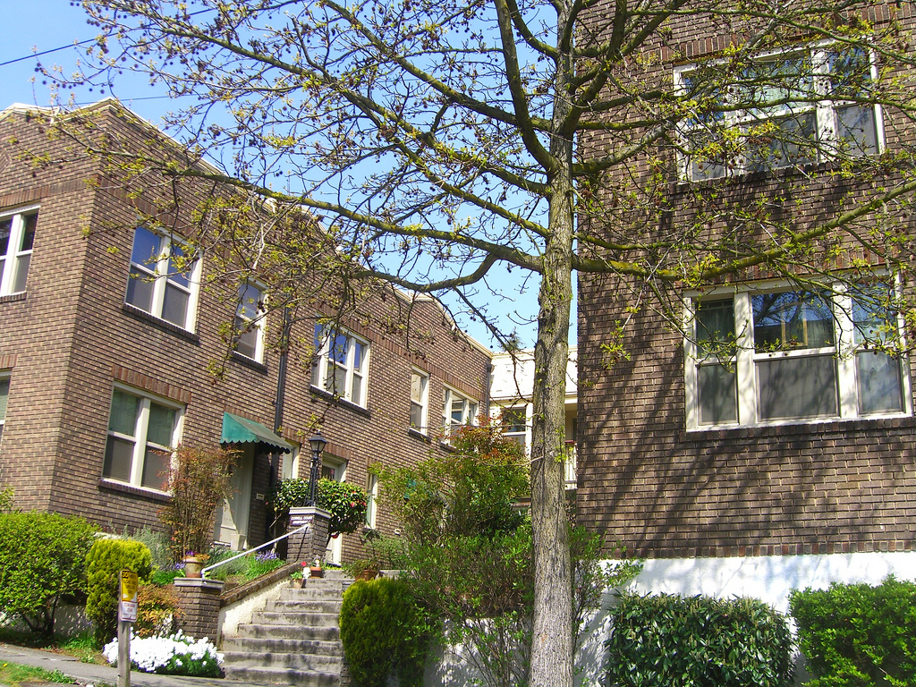 Coryell Court Apartments (1820 E Thomas, Capitol Hill, Seattle, Washington), the apartment building that was used as the main set for the 1992 Cameron Crowe film "Singles".